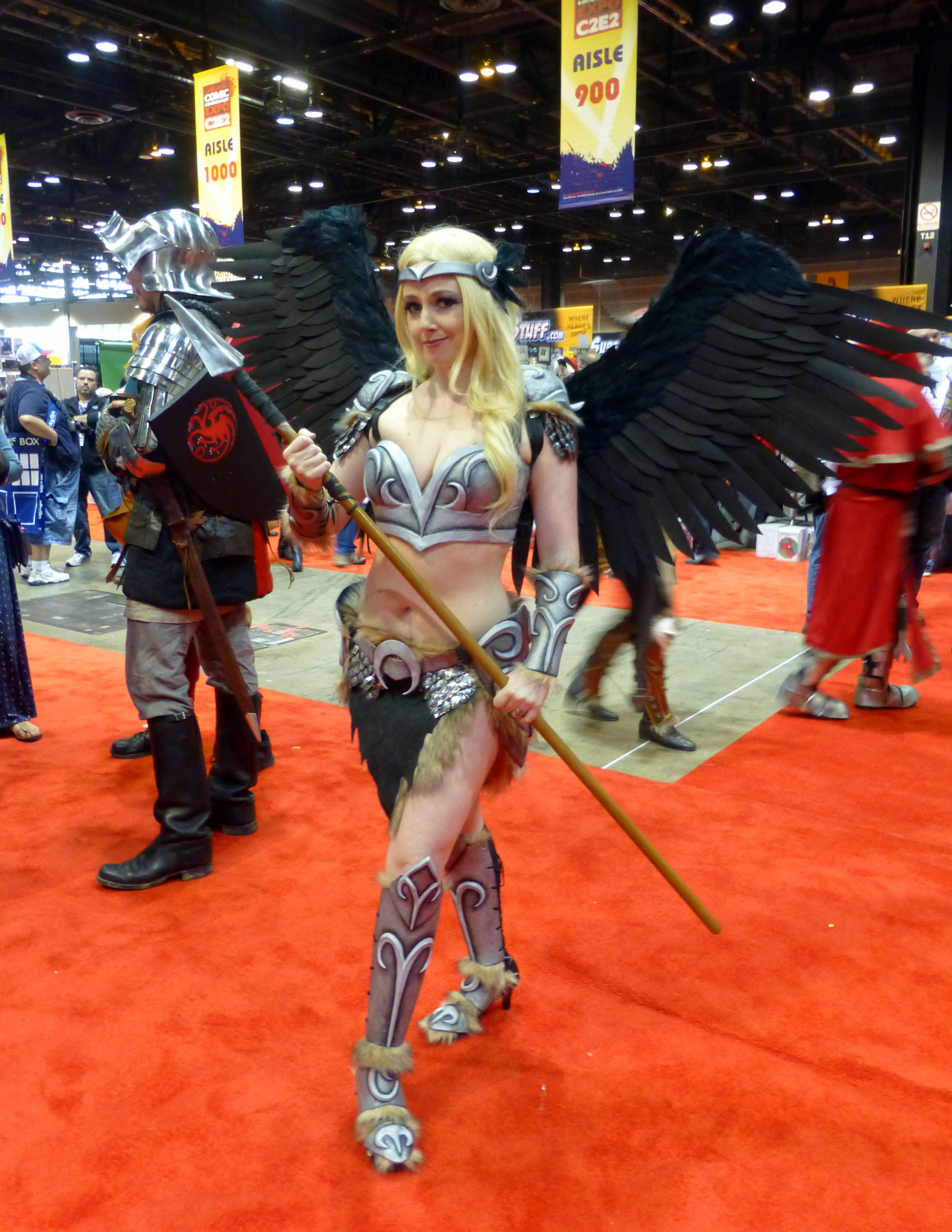 Norse Valkyrie Cosplay at Chicago Comic & Entertainment Expo (C2E2) 2015.